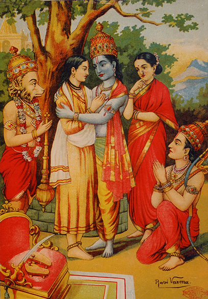 Bharatha meeting Rama who advice him to rule Ayodhya (Kosala Kingdom) on his behalf. Also known by the name 'Bharat Bhet' meaning Meeting of Rama and Bharatha. Lithographic print by Ravi Varma Press